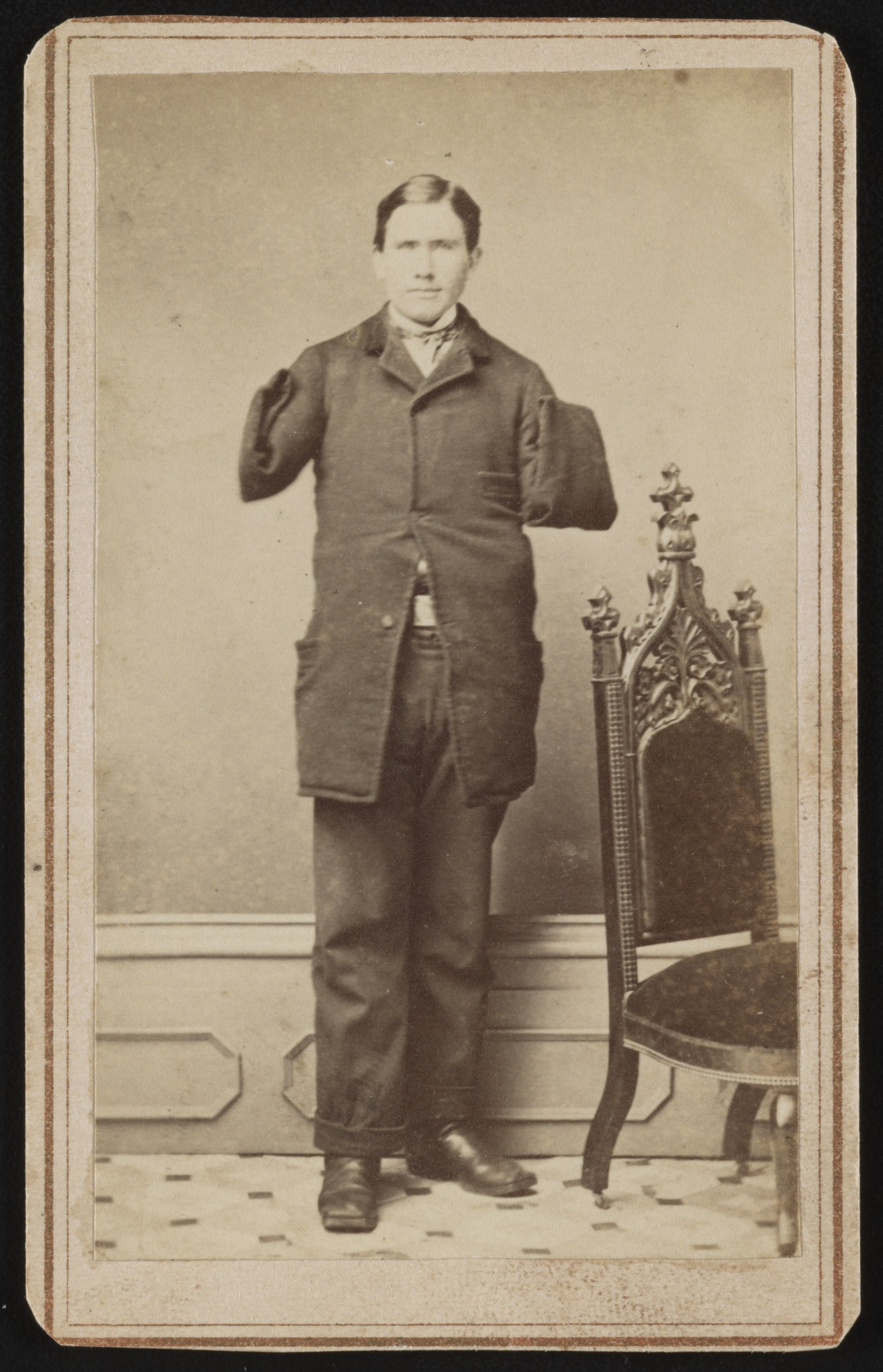 Title: Richard D. Dunphy, formerly Coal Heaver of U.S. Navy in suit Abstract/medium: 1 photograph : albumen print on card mount ; mount 11 x 6 cm (carte de visite format)